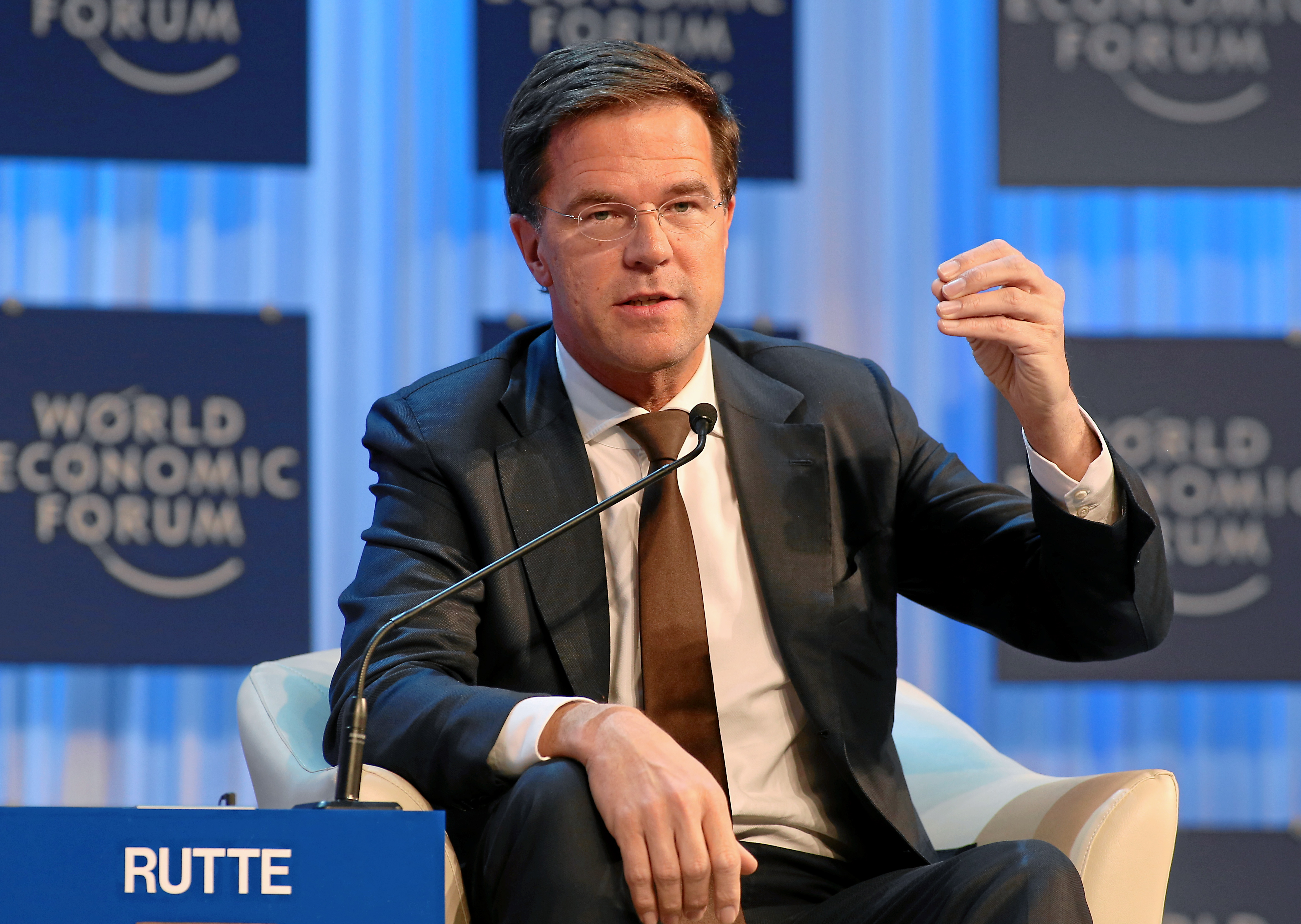 DAVOS/SWITZERLAND, 24JAN13 - Mark Rutte, Prime Minister and Minister of General Affairs of the Netherlands gestures during the session 'Eurozone Crisis - Building Resilient Institutions' at the Annual Meeting 2013 of the World Economic Forum in Davos, Switzerland, January 24, 2013.. . Copyright by World Economic Forum. . Monika Flueckiger